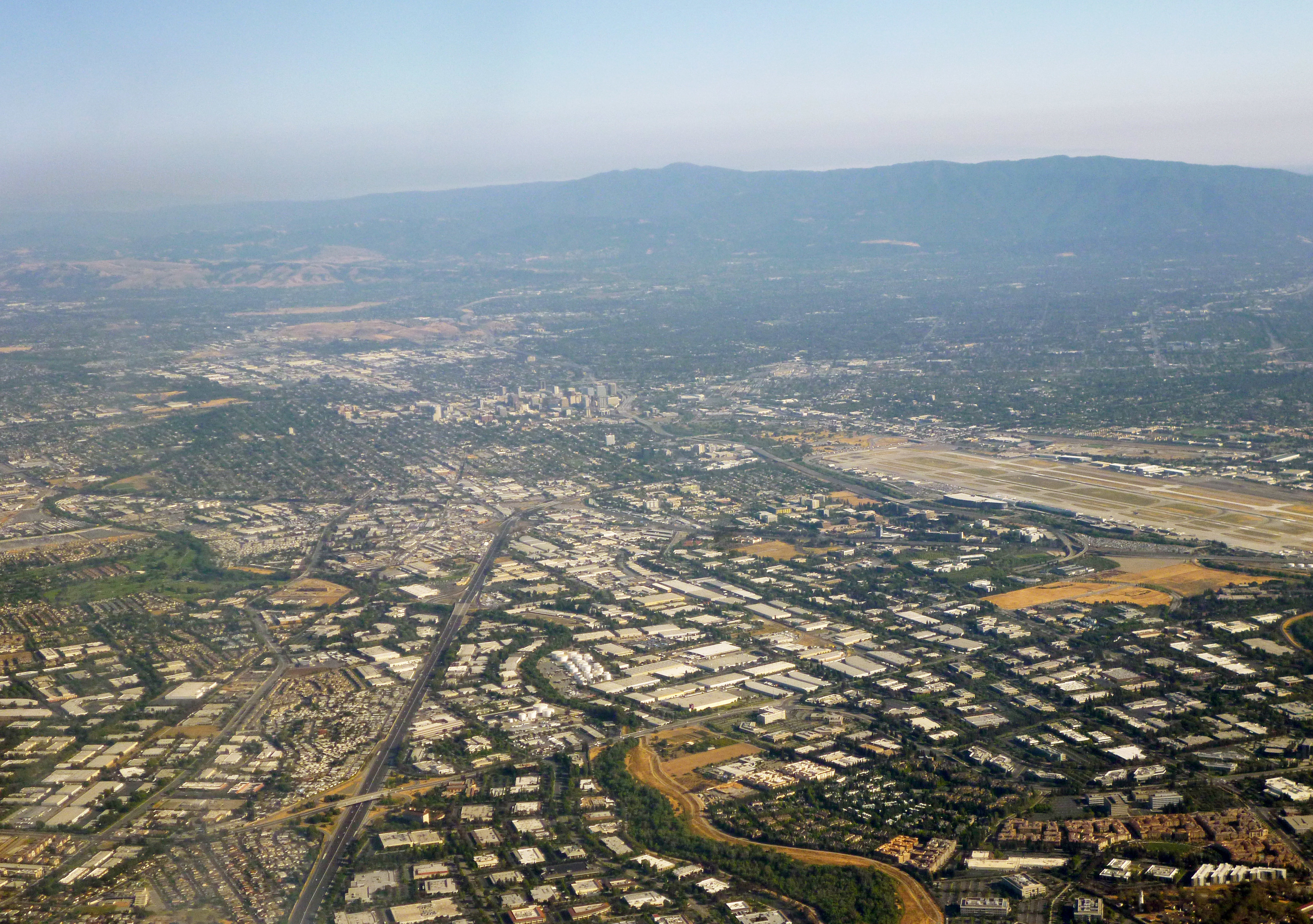 Silicon Valley; specifically, the North First Street area of San Jose, looking southbound down Interstate 880 towards downtown San Jose. Photographed by user Coolcaesar on 1 June 2014.